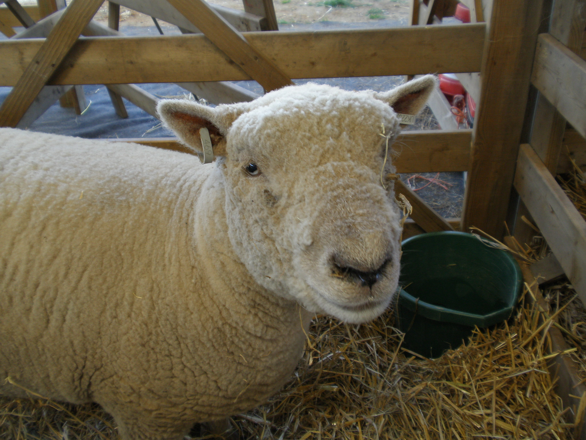 Southdown sheep at the Suffolk Show.